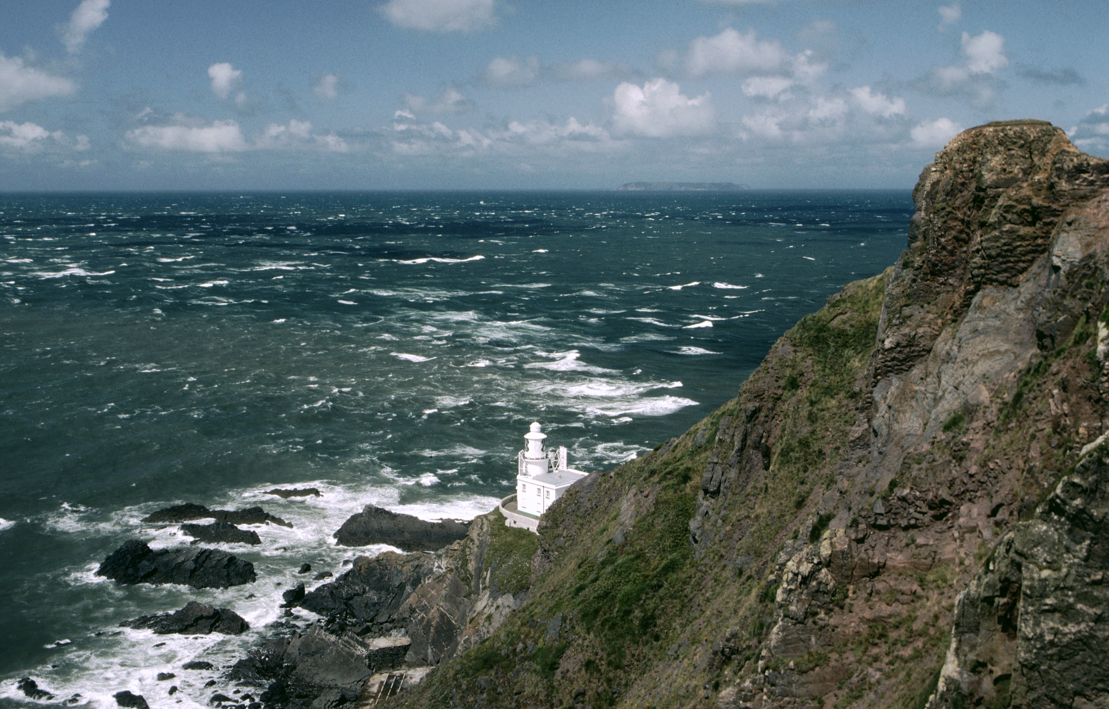 Light house at Hartland Point in North Devon/GB, Island of Lundy in the distance